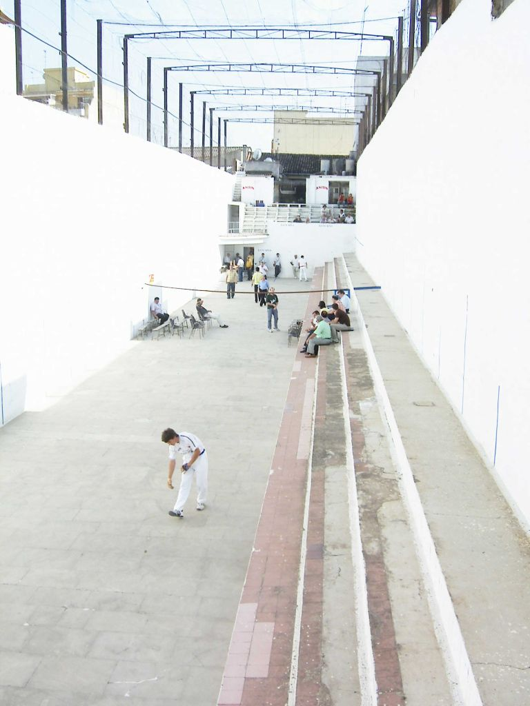 overview of Carcaixent's trinquet during a pilota match